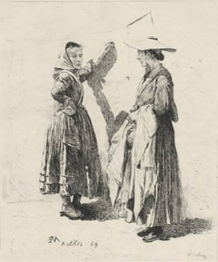 Lavandieres, Antibes (Washerwomen, Antibes) dated 1869 by Adolphe Lalauze (8 October 1838 - 1906)